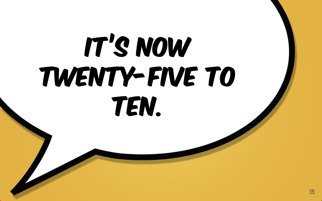 Comic style design of a desktop background word clock at